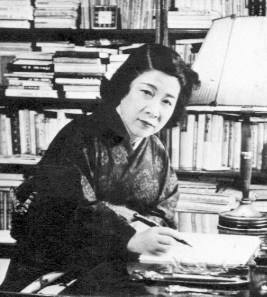 Fumiko Hayashi (31 December 1903 – 28 June 1951).